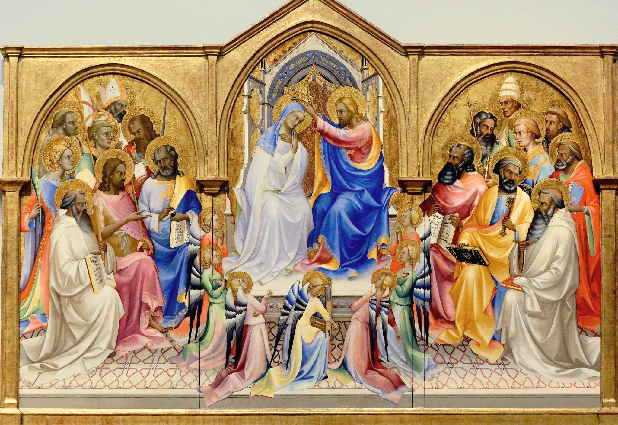 Lorenzo Monaco, Coronation of the Virgin, 1409, London NG